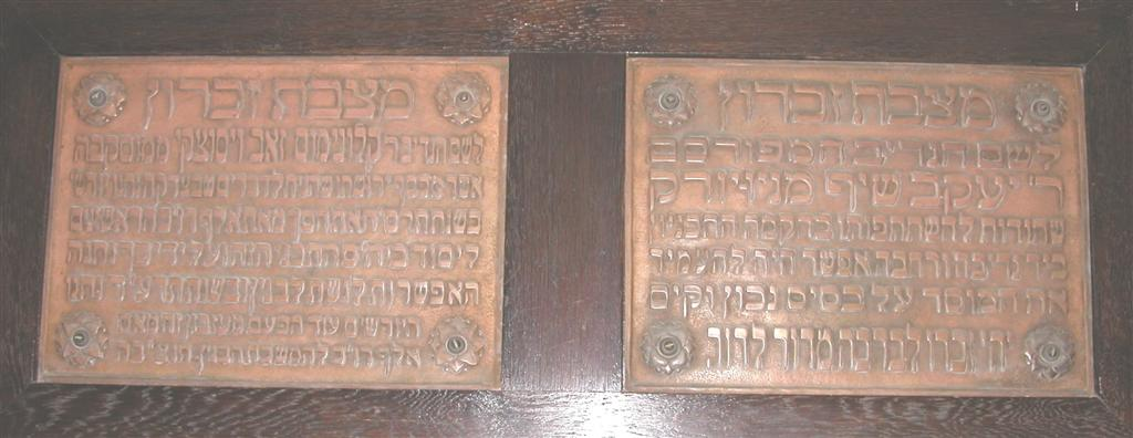 Monument For Donors In Old Technion